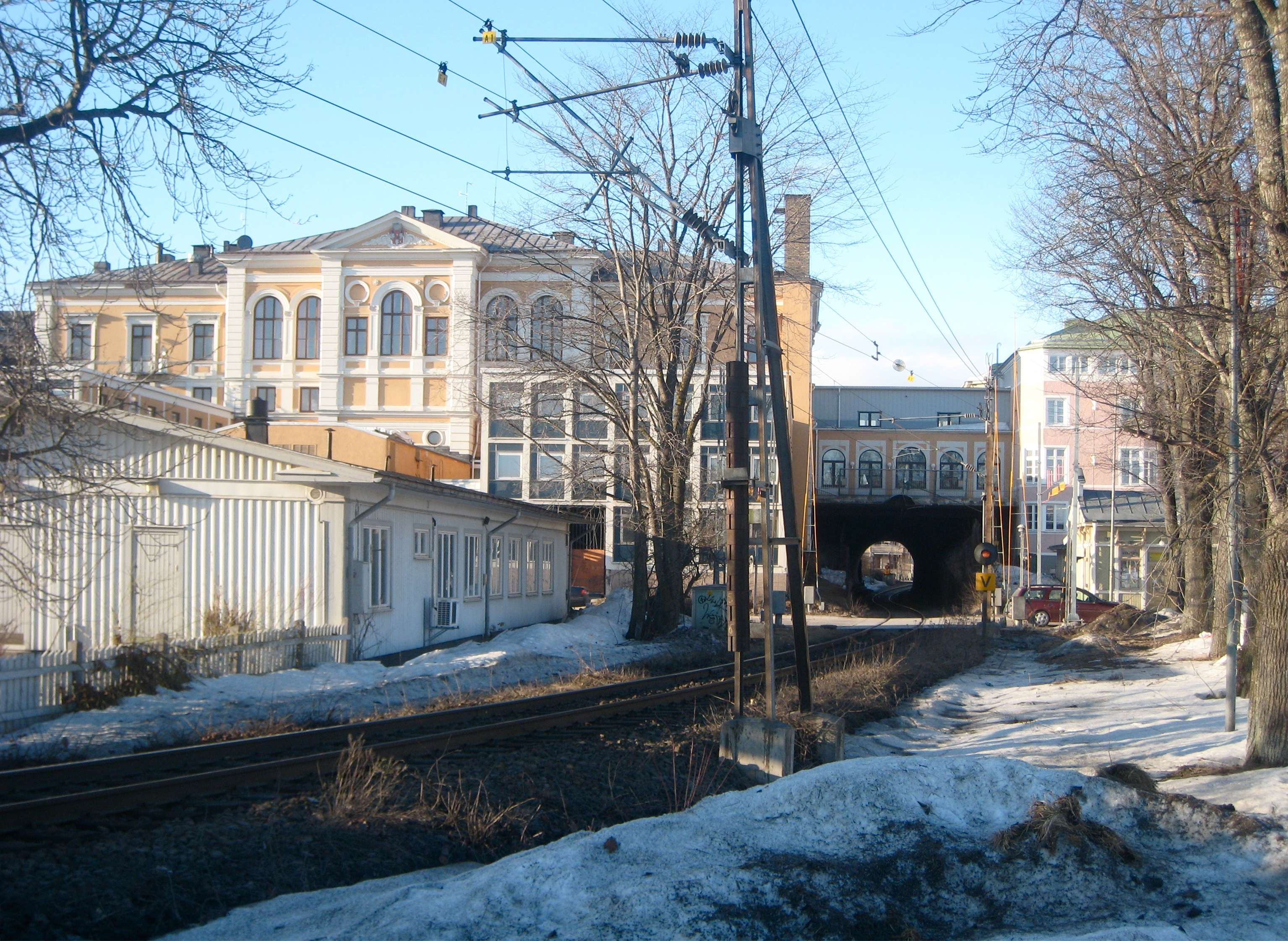 Stadshotellet i Hudiksvall.